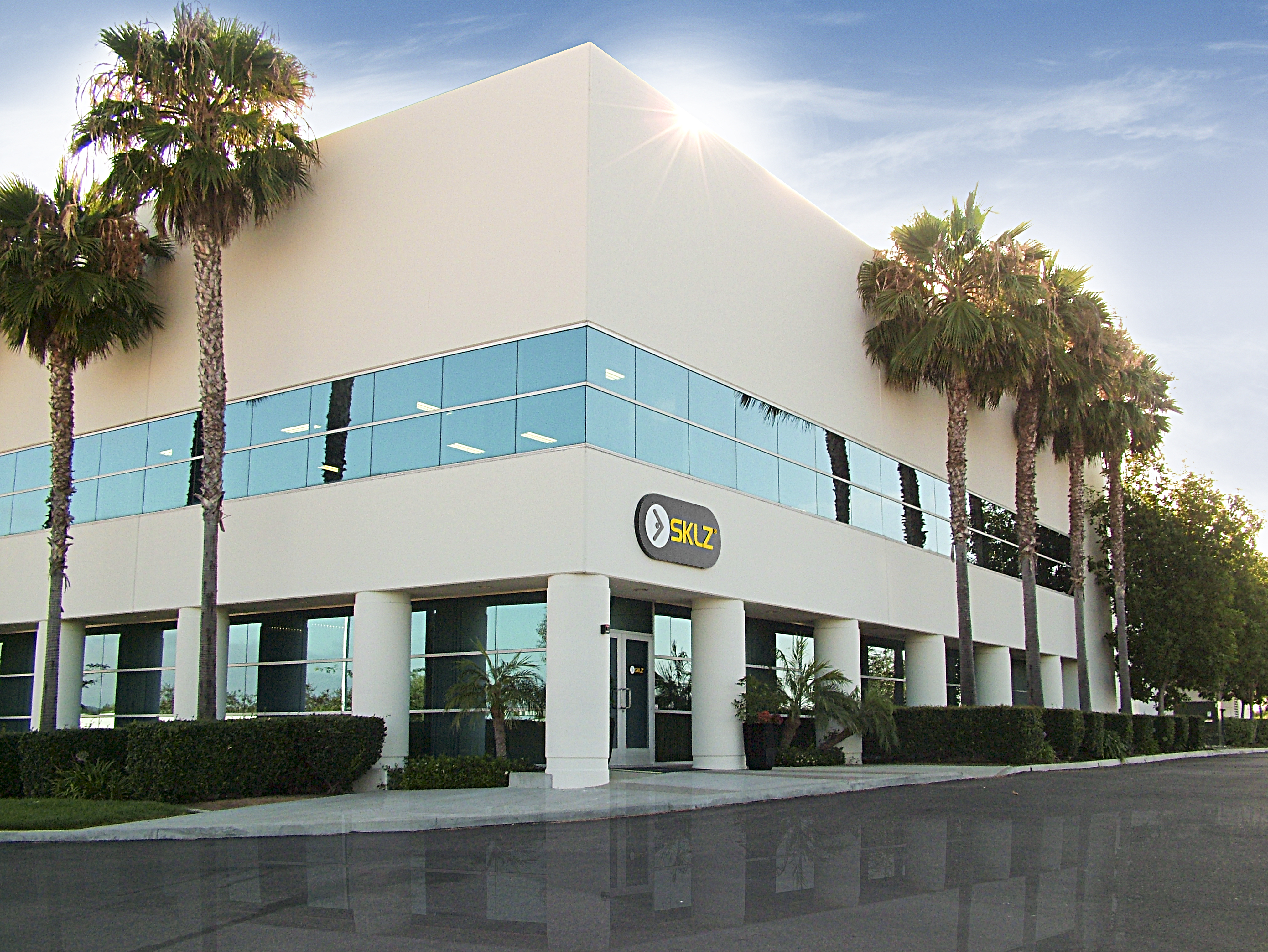 SKLZ Headquarters Carlsbad, CA